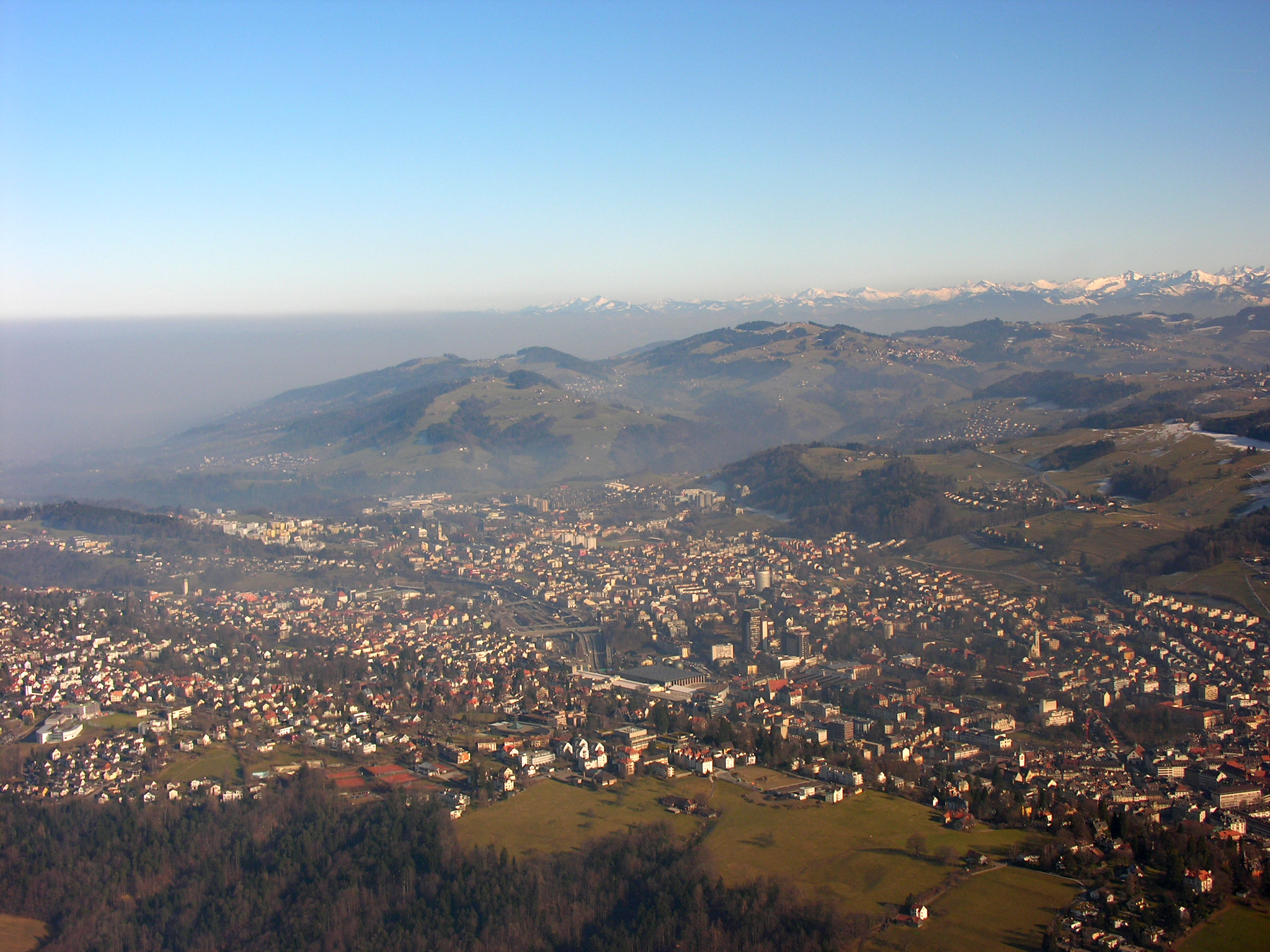 Aerial View of St. Gallen